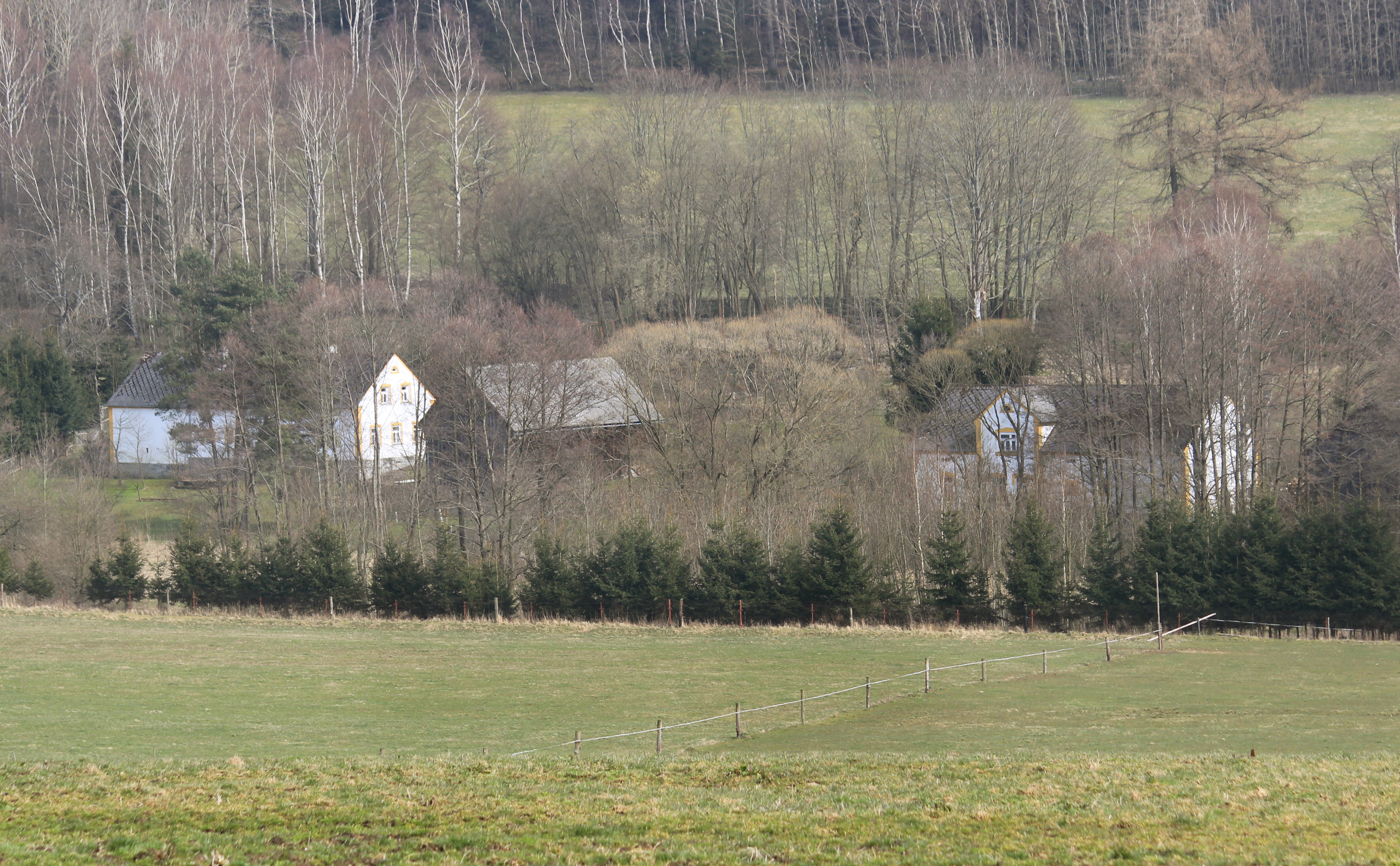 Hleďsebe, part of Bělá nad Radbuzou, Czech Republic.